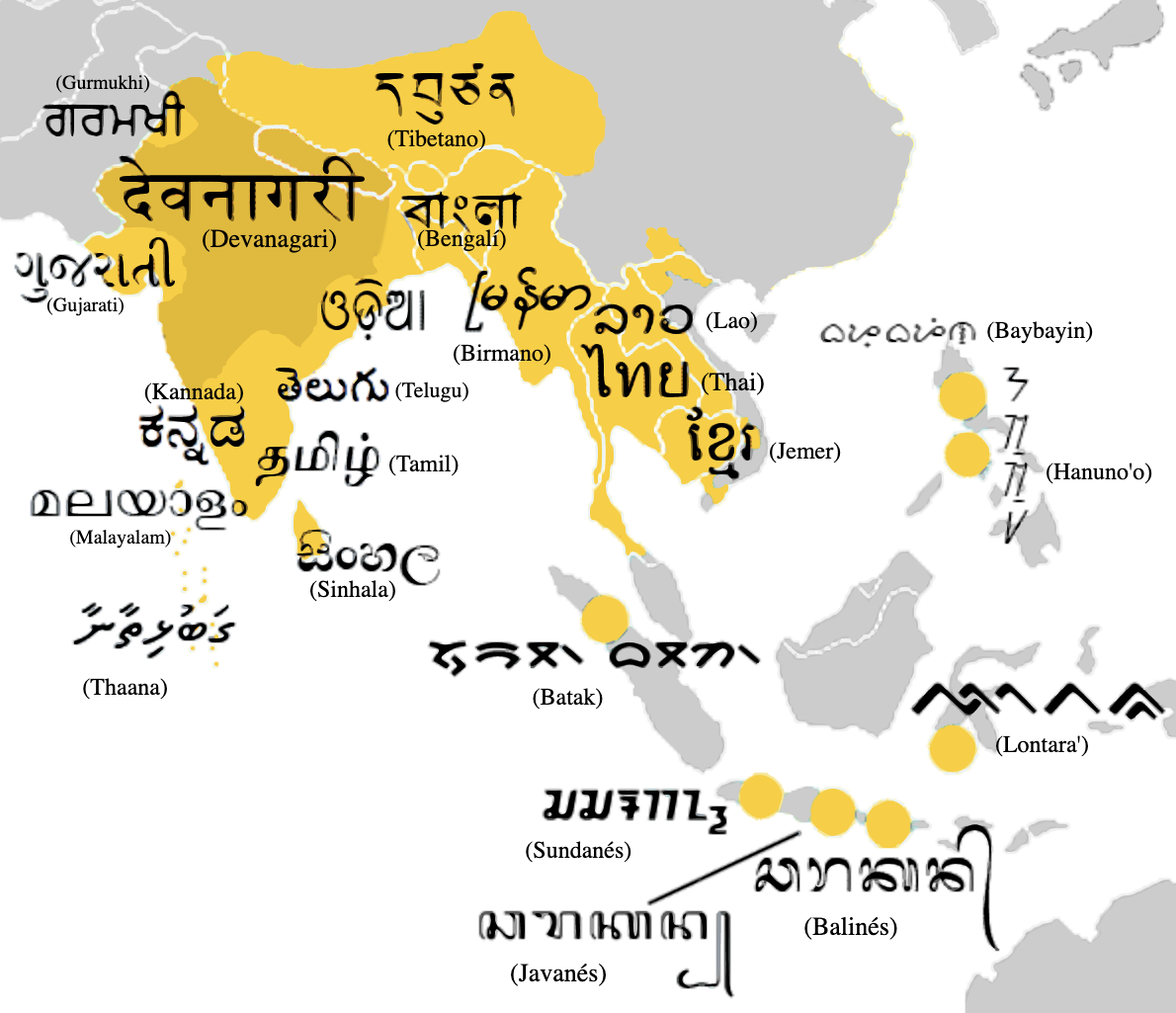 Bráhmic Scripts, with devanagari highlighted darker